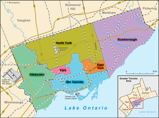 Toronto Districts. Districts of Toronto, Toronto Map of: Toronto¤.